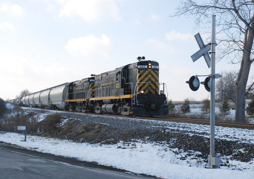 Northbound Livonia, Avon and Lakeville Road Freight at East River Road on December 31, 2007.